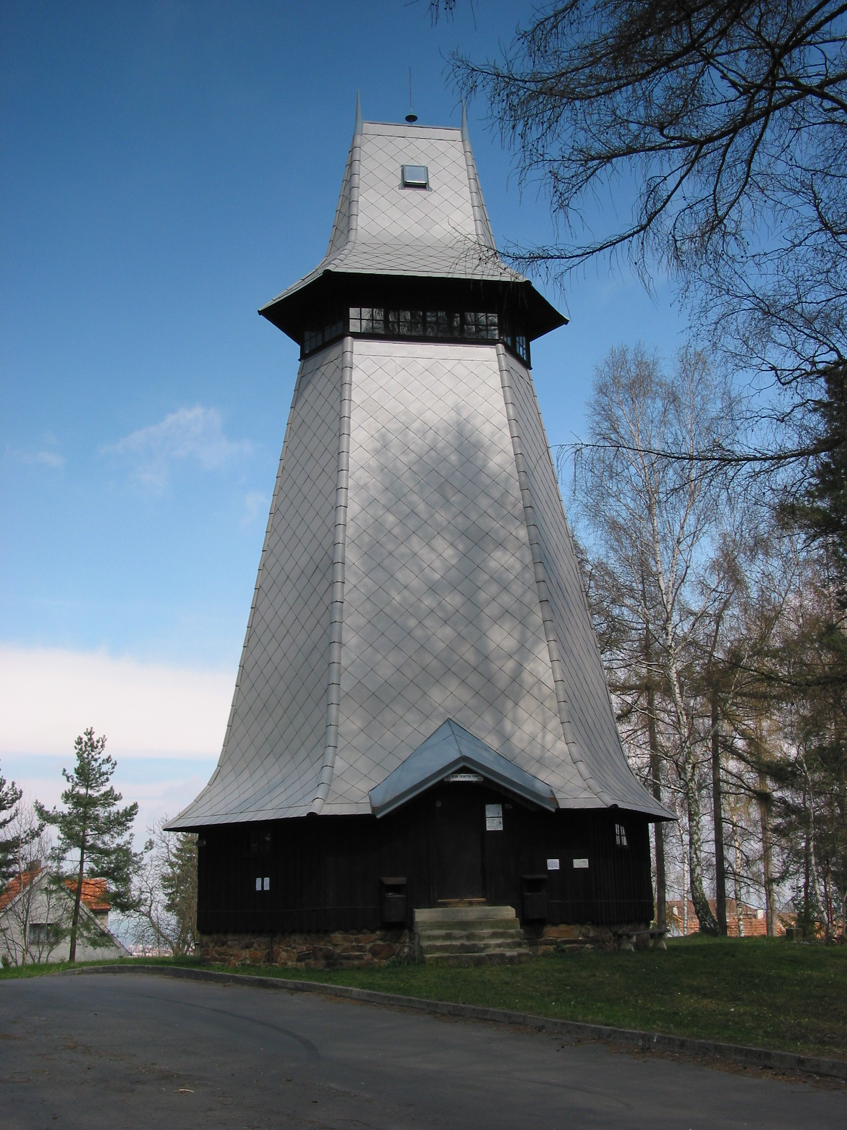 Hýlačka lookout tower near Tábor, Czech Republic.